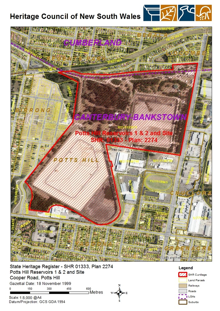 Potts Hill Reservoirs 1 and 2: SHR Plan 2274